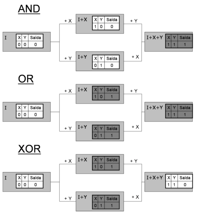 truth table of molecules used as Logic Gates (AND OR XOR) based in image from J. Am. Chem. Soc. 1997, 119, 2679-2681